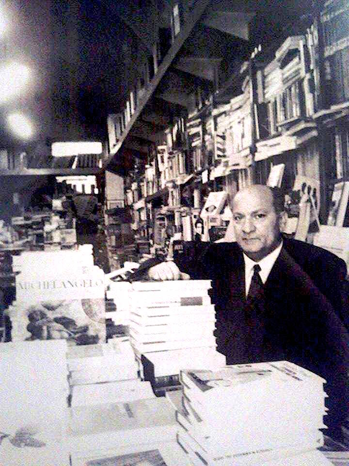 Pasquale Sorrenti in his bookshop in Bari (Italy)